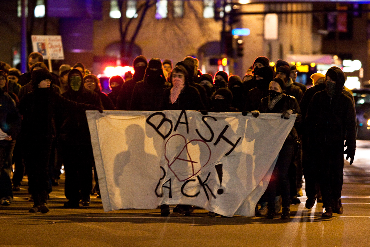 A group of masked protesters march down 12th Street in Downtown Minneapolis on December 2, 2009, to protest Obama's announcement of troops being sent to Afghanistan. View all of the images from the march: Minneapolis Afghanistan War Announcement Protest